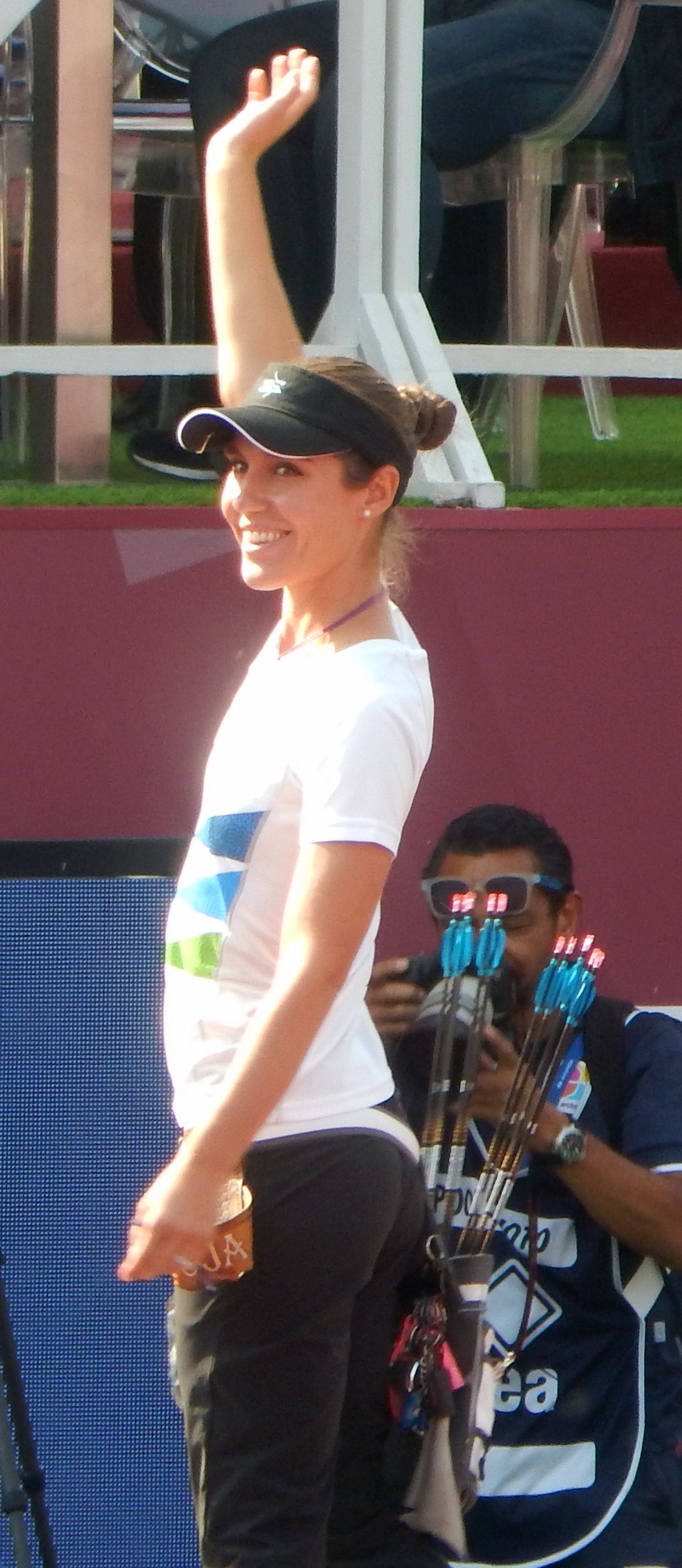 2019 Archery World Cup Final in Moscow. Women's compound.